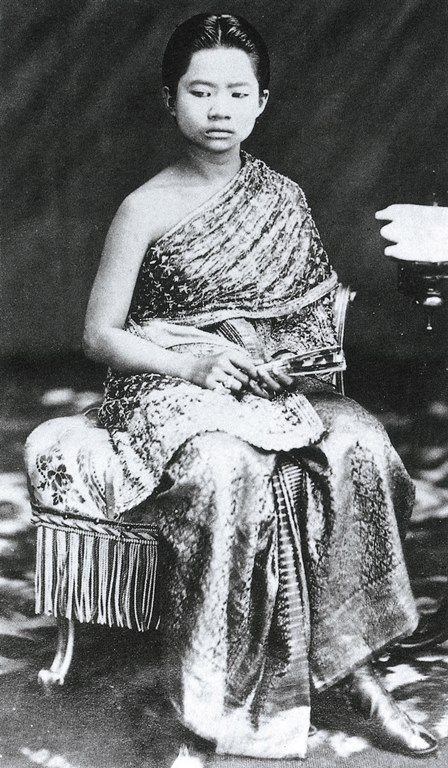 Her Majesty Queen Sukumalmarsri, Royal consort of His Majesty King Chulalongkorn (10 May 1861 - 9 July 1927)